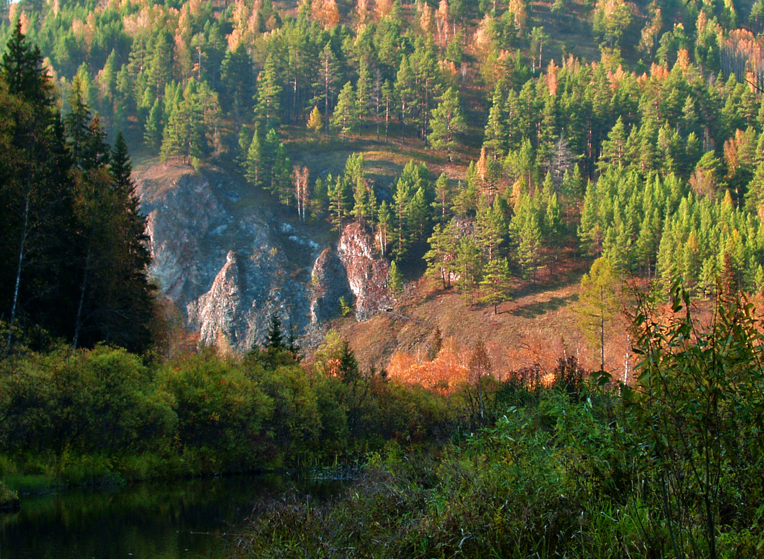 Sunset in the Bazaikha gulley